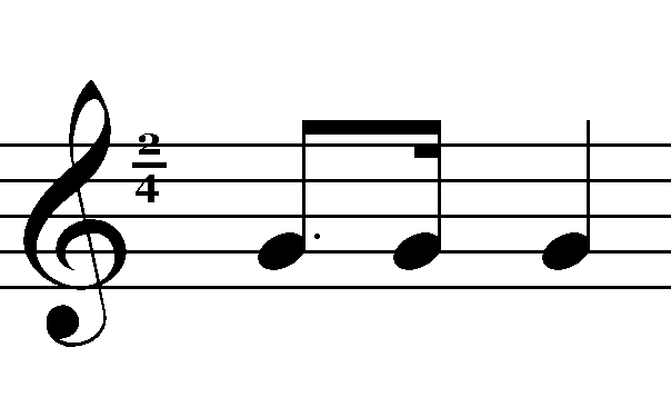 Range & (standard) tuning of a Tenorbanjo - self made with Sibelius3 & The Gimp